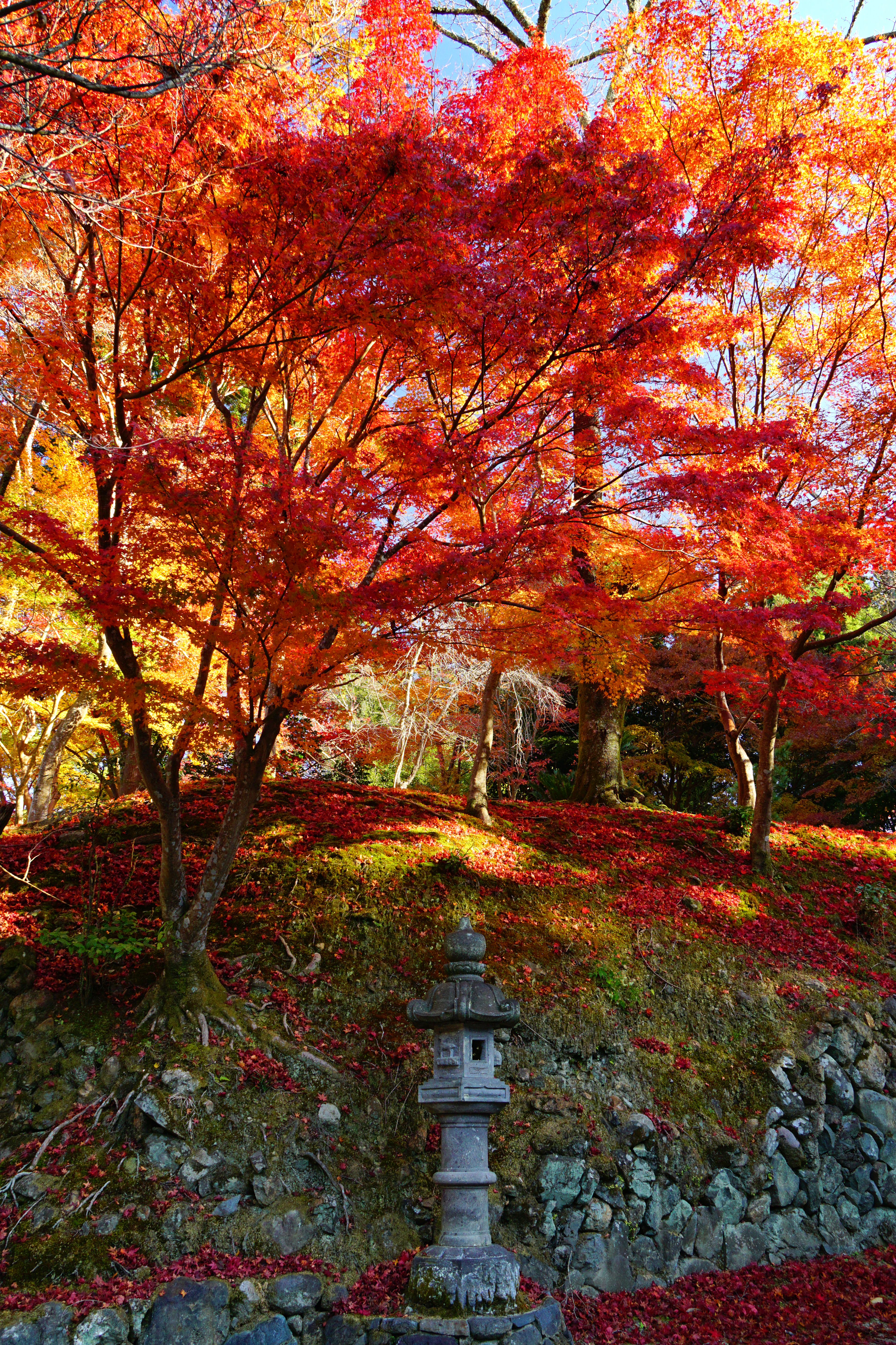 Kabusan-ji in Takatsuki, Osaka Prefecture, Japan